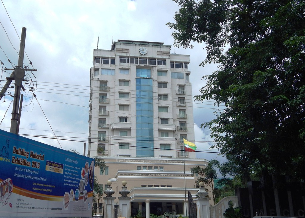 Union of Myanmar Federation of Chambers of Commerce and Industry main building, Yangon, Burma